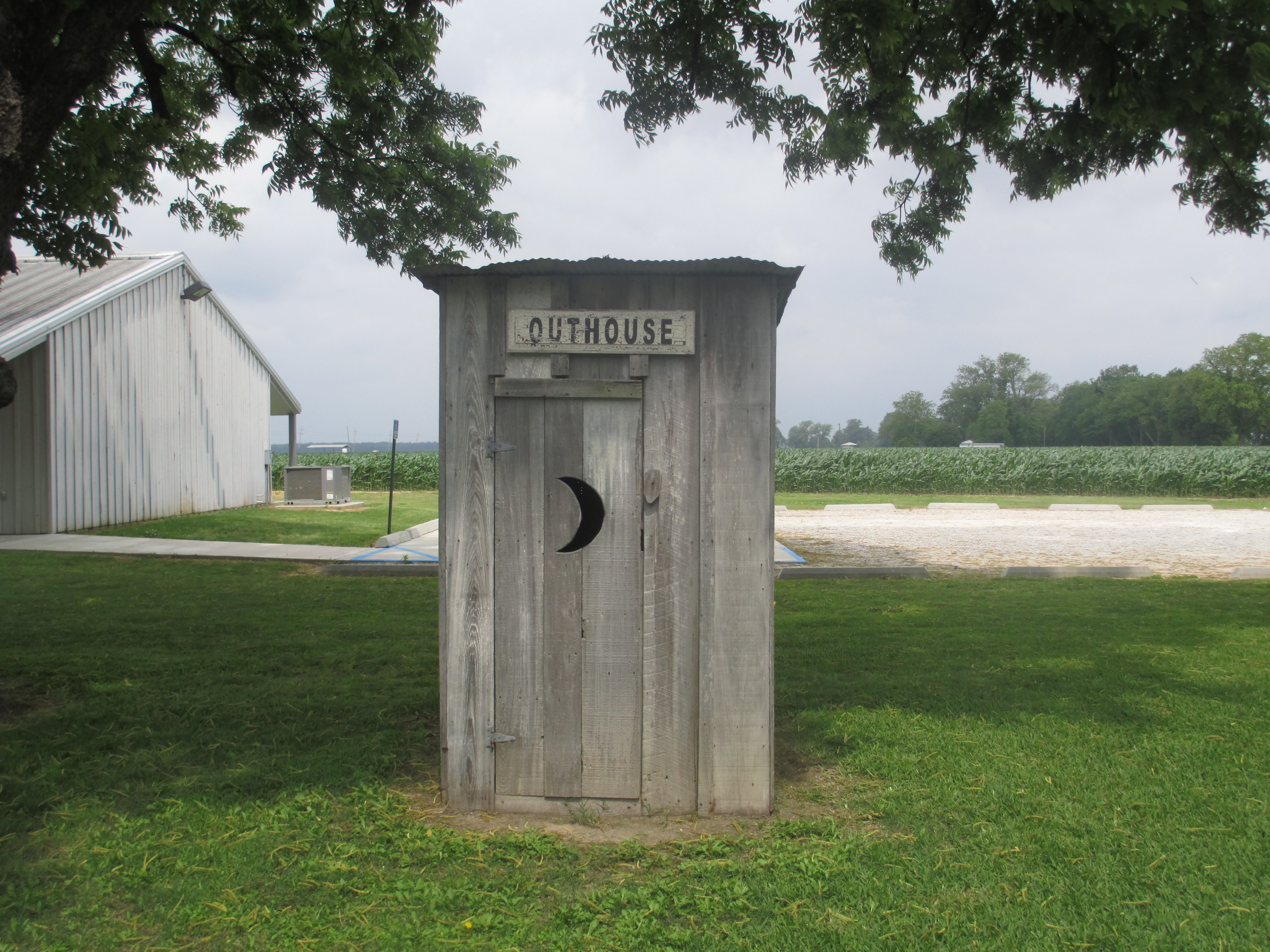 I took photo of outhouse used by sharecroppers on display at Louisiana State Cotton Museum in Lake Providence, LA, with Canon camera.